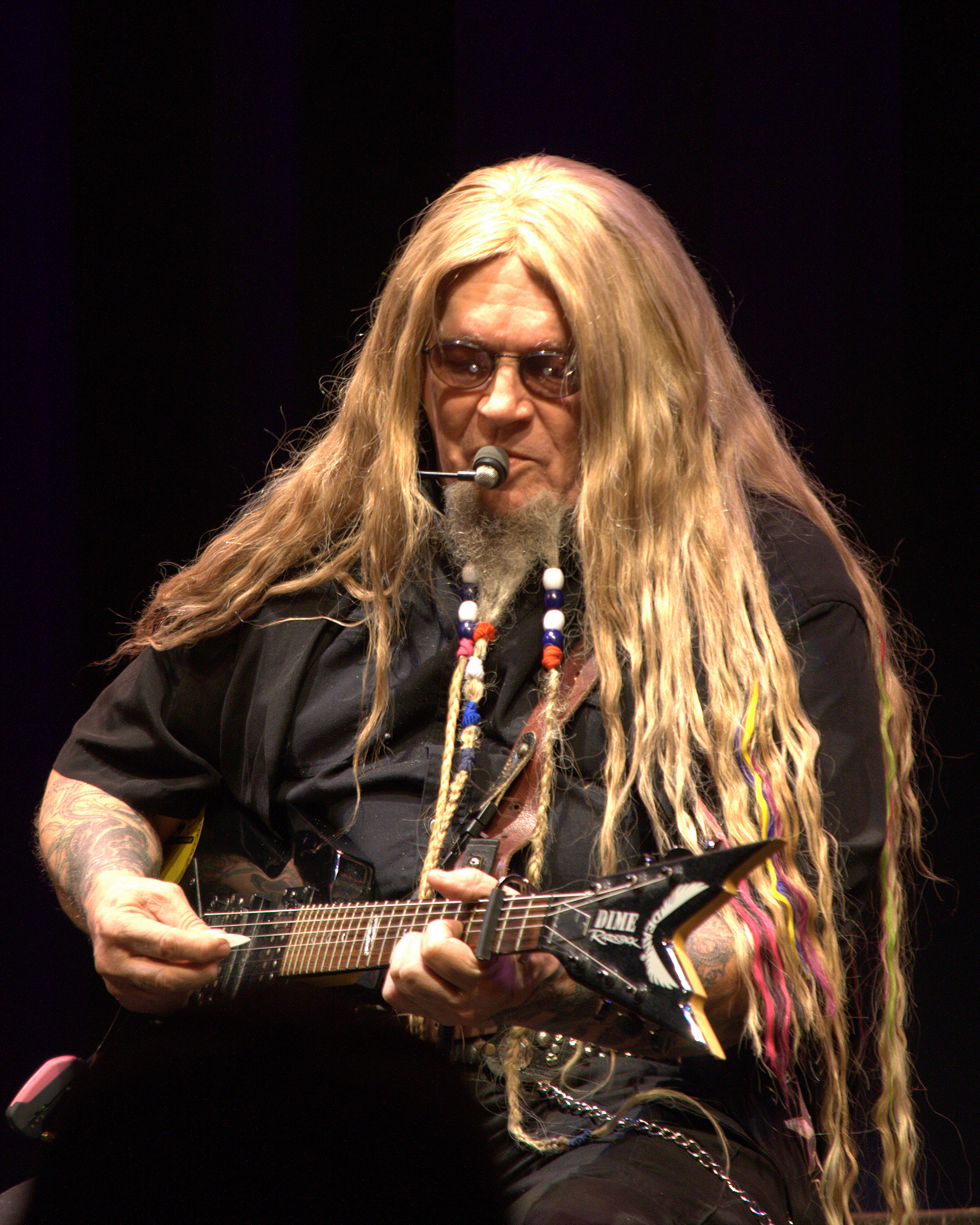 David Allan Coe, performing in 2008